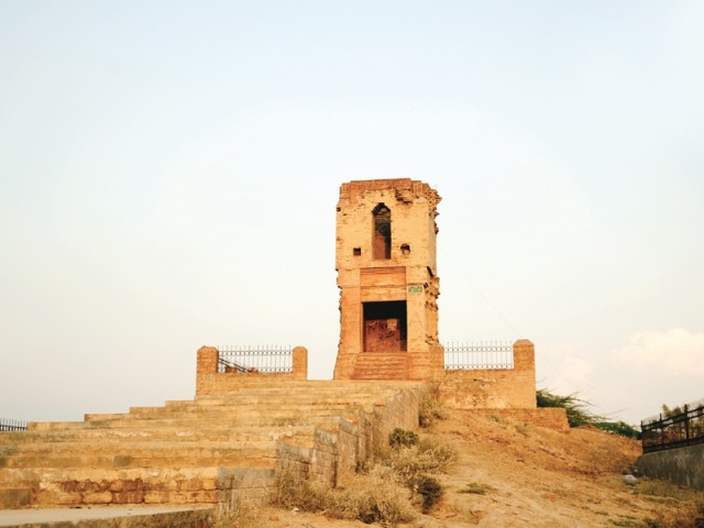 historical building